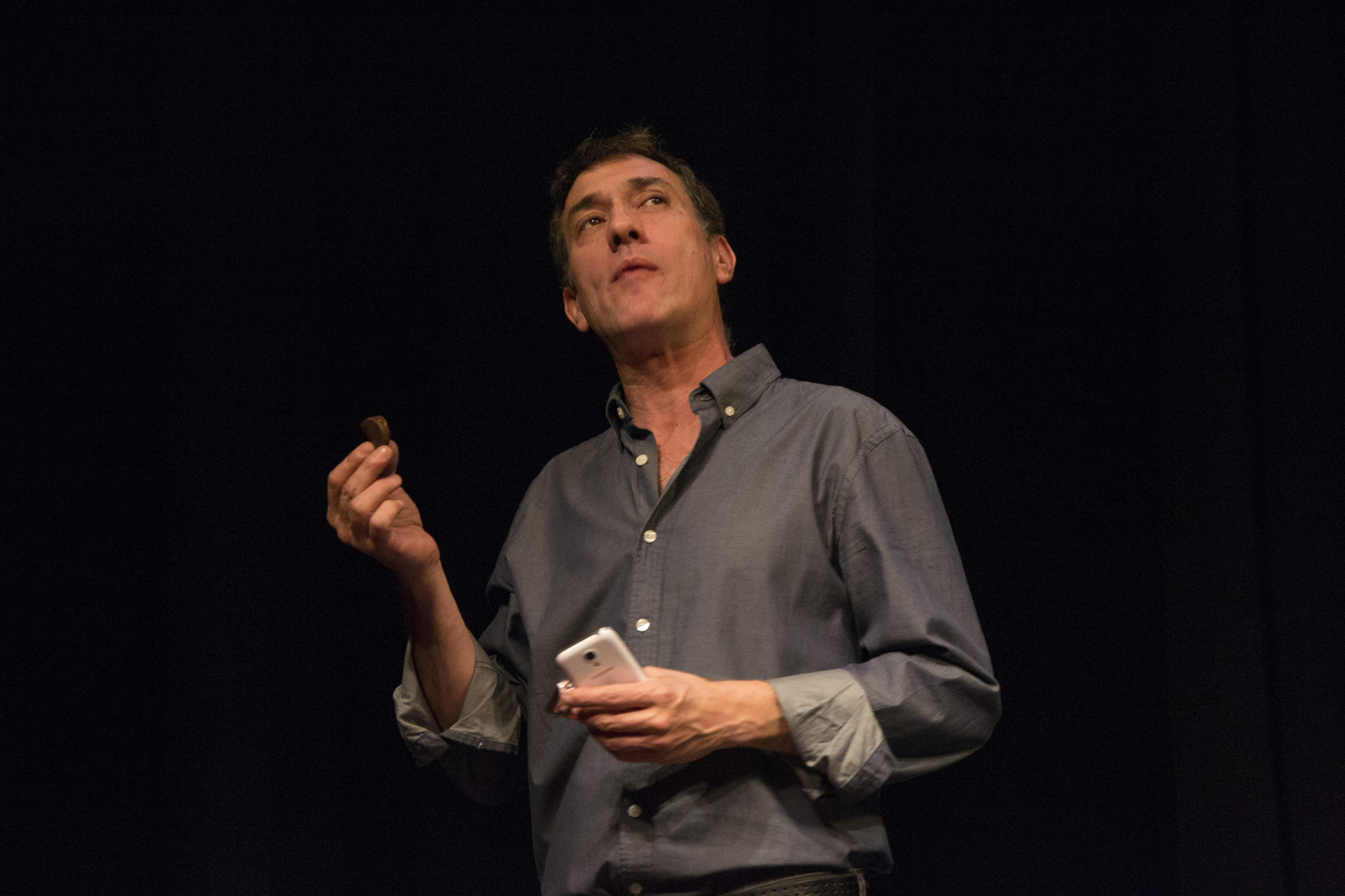 Argentine actor Alejo García Pintos on stage, in Buenos Aires. 16 September 2014. Picture by Romina Santarelli / Ministerio de Cultura de la Nación.